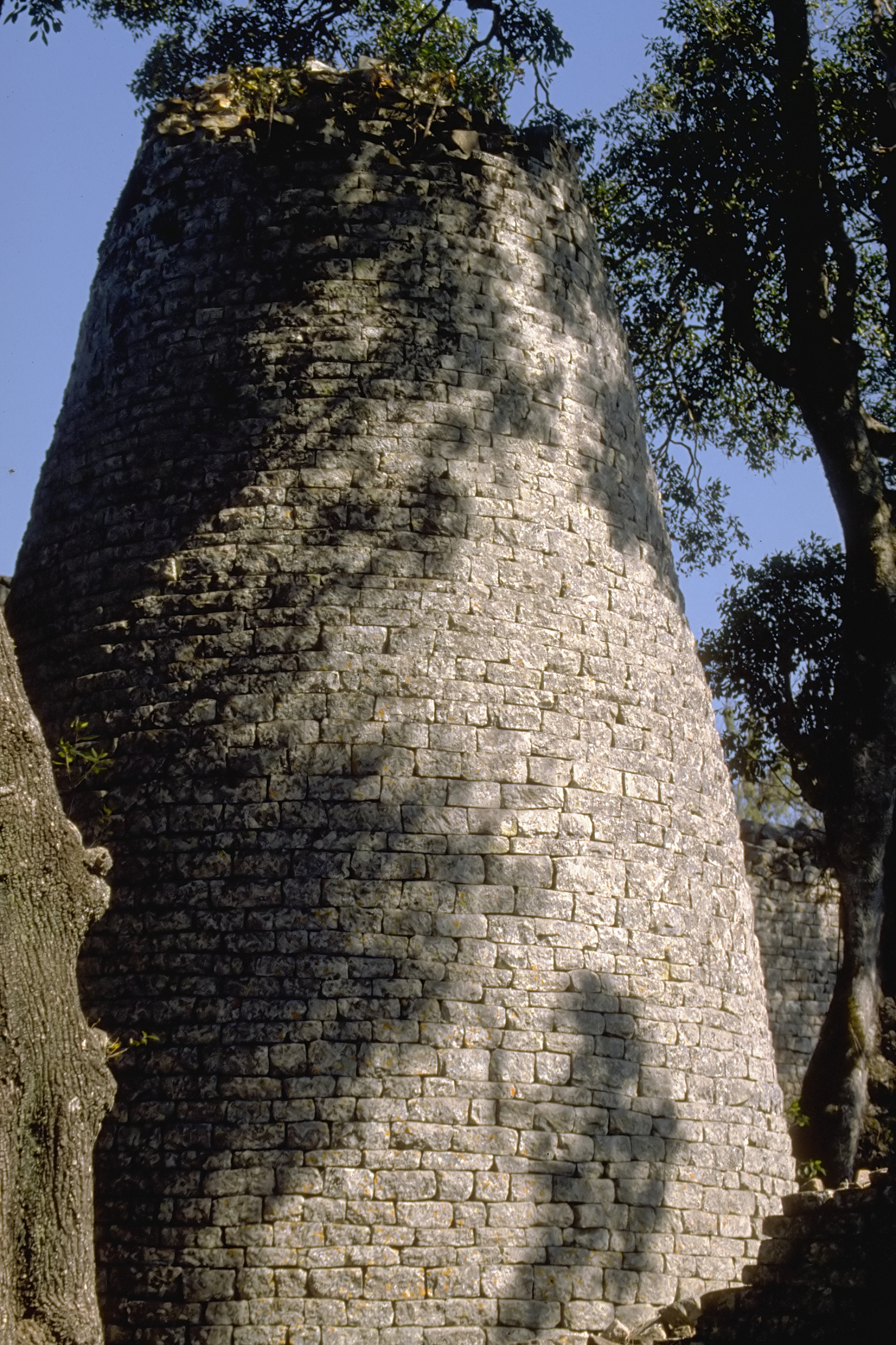 Great Zimbabwe Donjon - Close to Masvingo, Zimbabwe